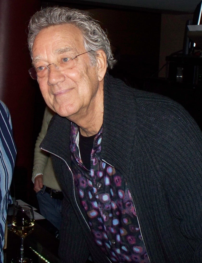 Ray Manzarek in Seattle at the Triple Door.